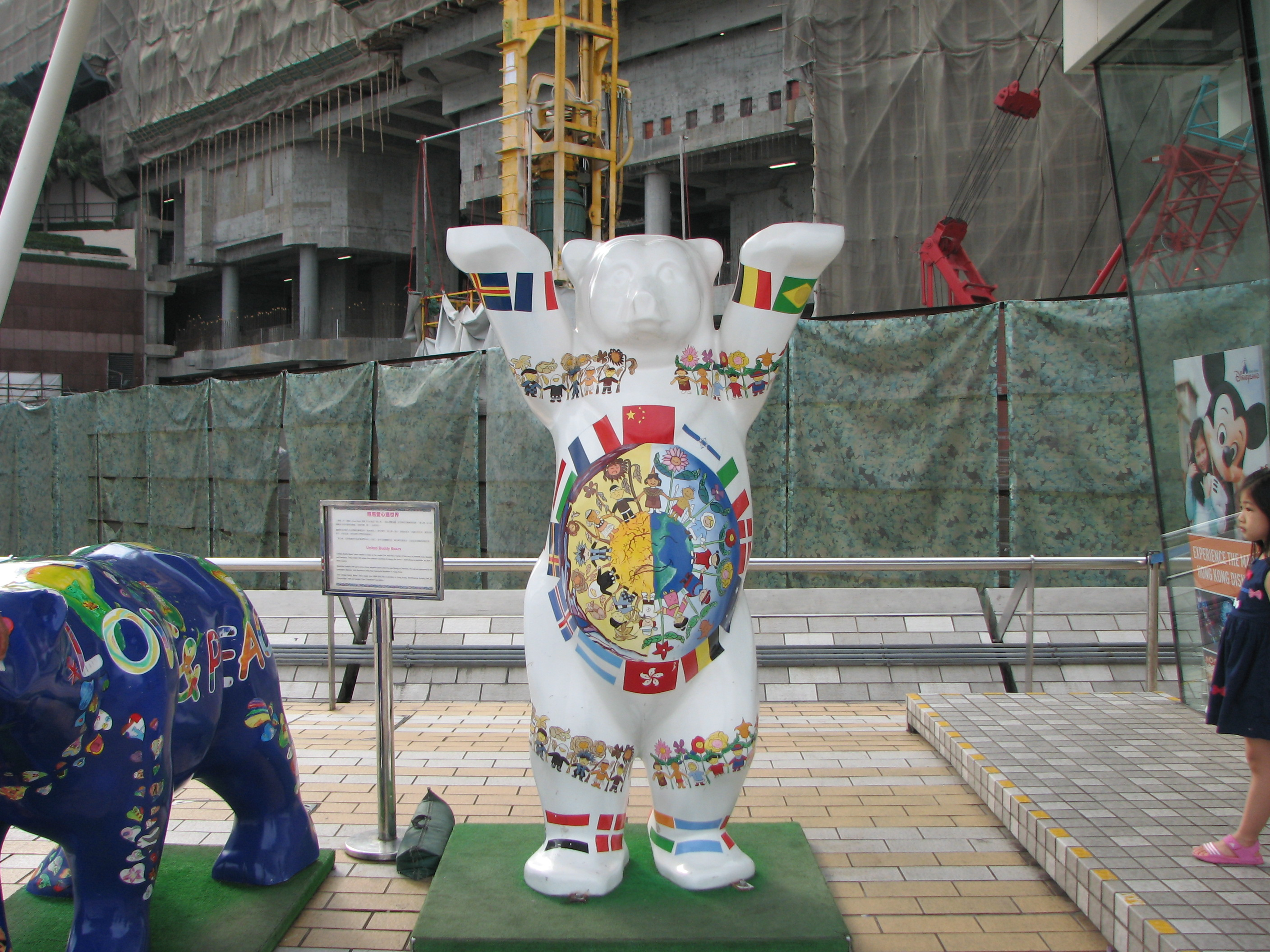 Buddy Bear on the Avenue of Stars, Hong Kong 2016